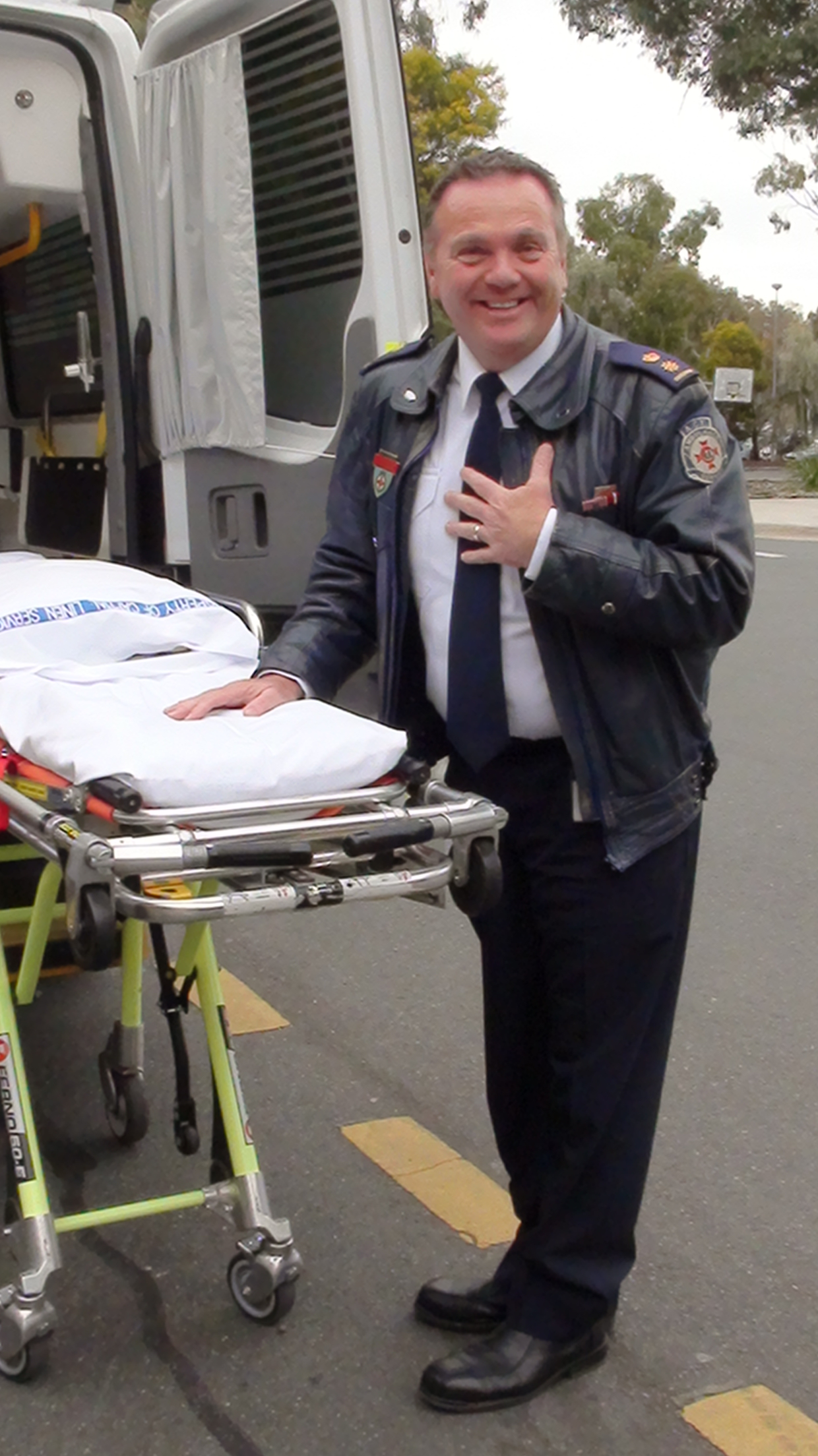 The educator for the ACT Ambulance Service (ACTAS), John Slater preparing postgraduate critical care nursing students for their placements.